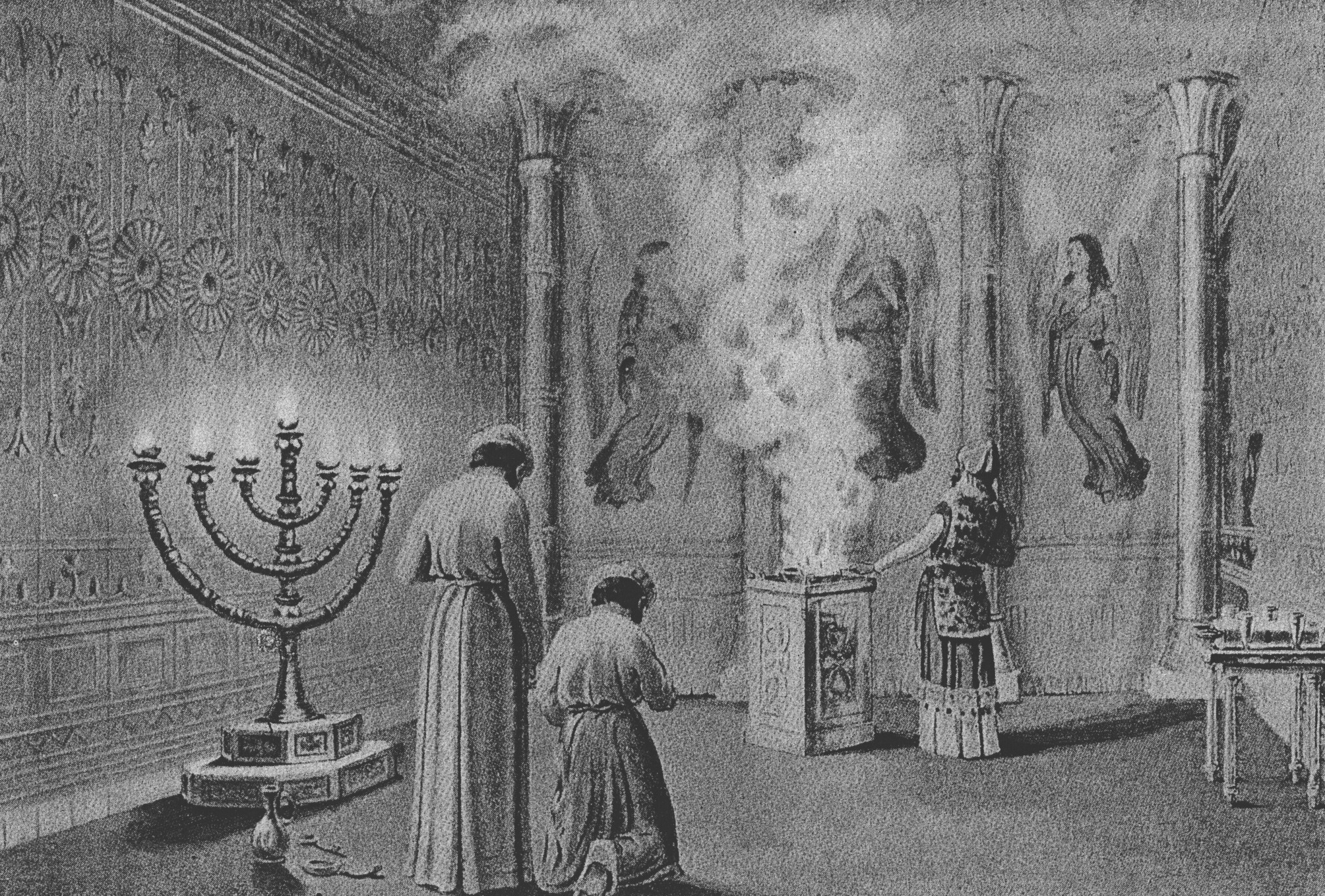 The Shekinah Glory Enters the Tabernacle; illustration from The Bible and Its Story Taught by One Thousand Picture Lessons. Edited by Charles F. Horne and Julius A. Bewer. 1908.